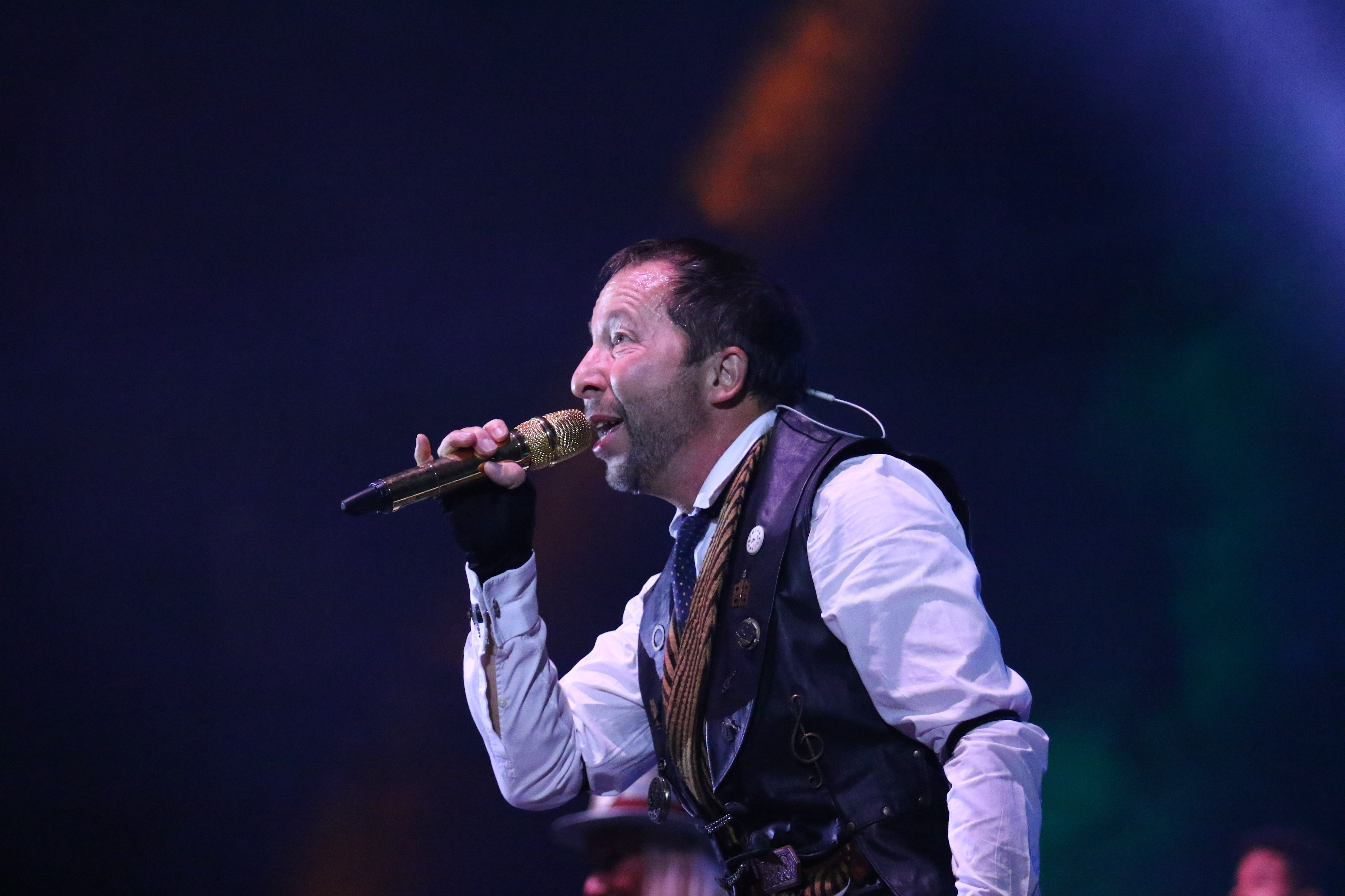 Peter René Baumann (born 5 January 1968), better known as DJ BoBo, is a Swiss recording artist, singer-songwriter, dancer and music producer.